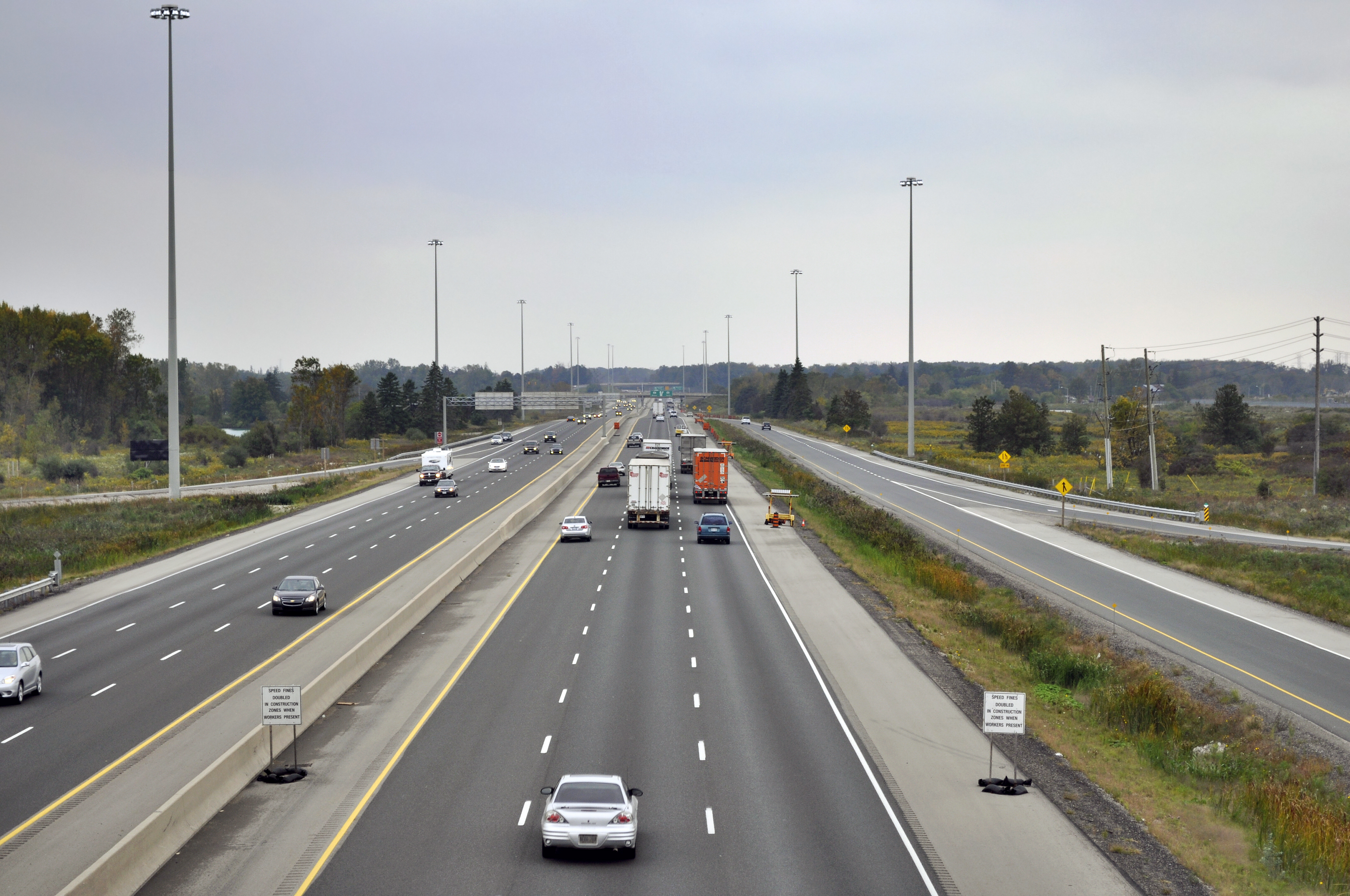 Highway 401 seen from the Wellington Road overpass in London, Ontario, looking west towards the Highway 402 interchange.